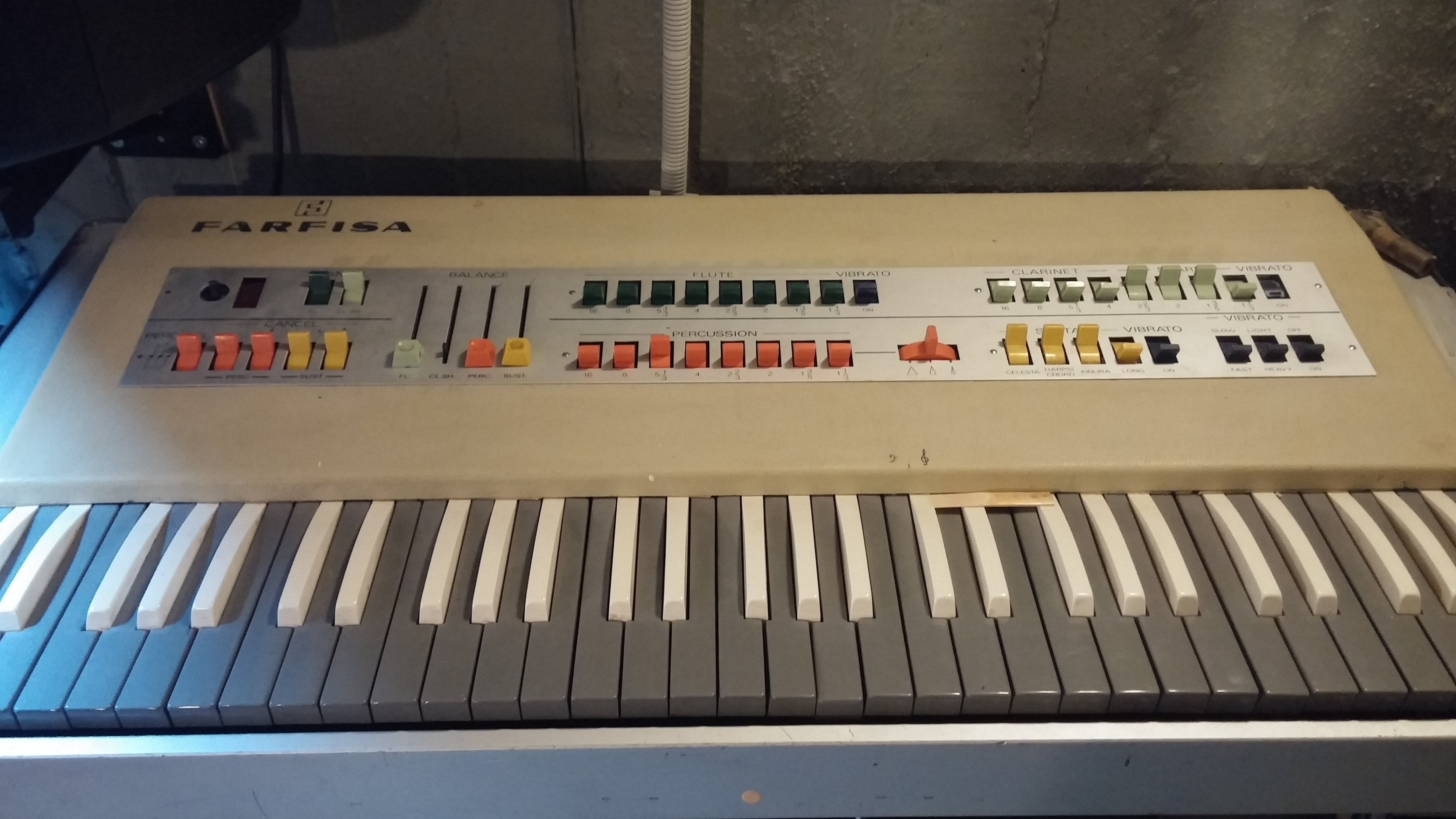 The Farfisa brand name is an acronym for "FAbbriche Riunite di FISArmoniche", which translates to "united factories of accordions". This Farfisa, and lots more, will soon be available to music lovers worldwide… Visit to find out how. References Farfisa Professional. Combo Organ Heaven .